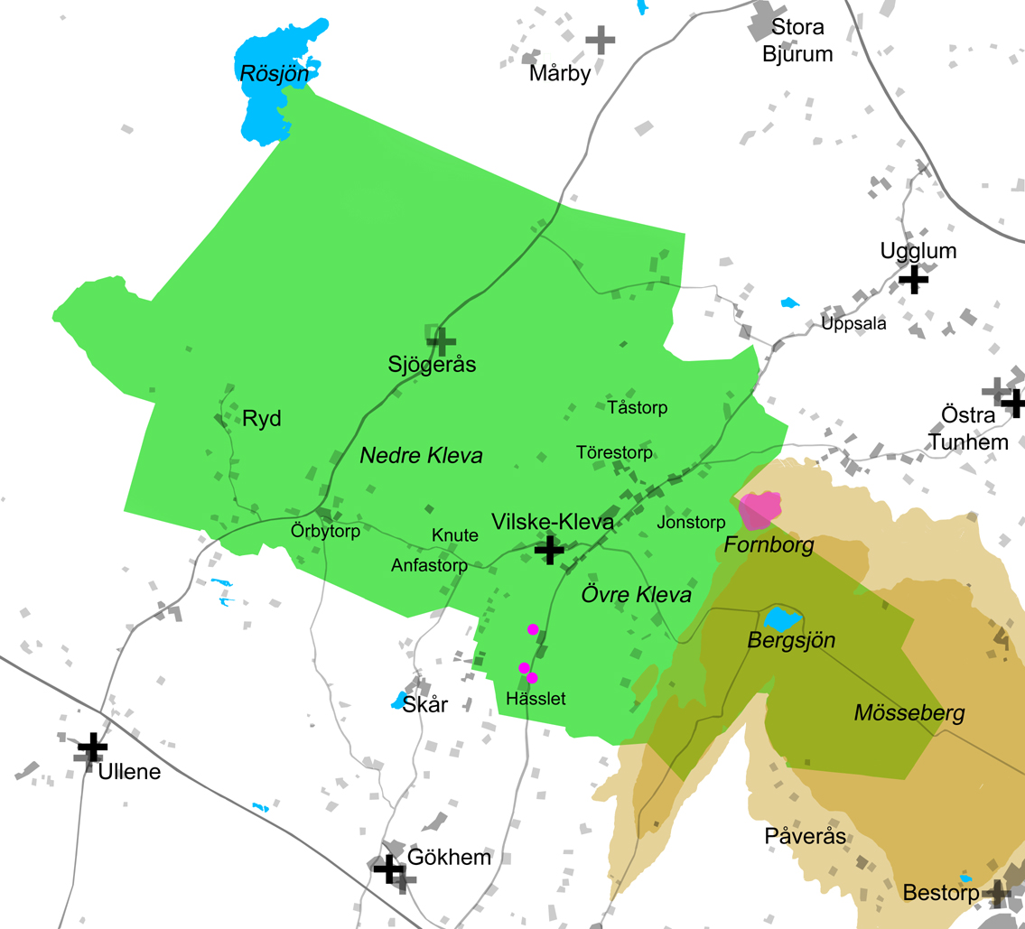 Map of Vilske-Kleva parish in Vilske hundred, Falköping municipality, Västergötland, Sweden. Scale 1:40,000. The area of Vilske-Kleva parish is marked green. The table mountain is marked brown. The lakes Rösjön and Bergsjön are marked blue. The churches of Vilske-Kleva, Ullene, Gökhem, Ugglum, and Östra Tunhem kyrkor are marked with black crosses. The church ruins Sjögerås, Ullene, Gökhem Överkyrke, Mårby, Östra Tunhem, and Bestorp are marked with grey crosses. Roads, villages, and farms are marked grey. The ancient hillfort at Mösseberg and the megalithic graves around Hässlet and Skattegården are marked magenta.